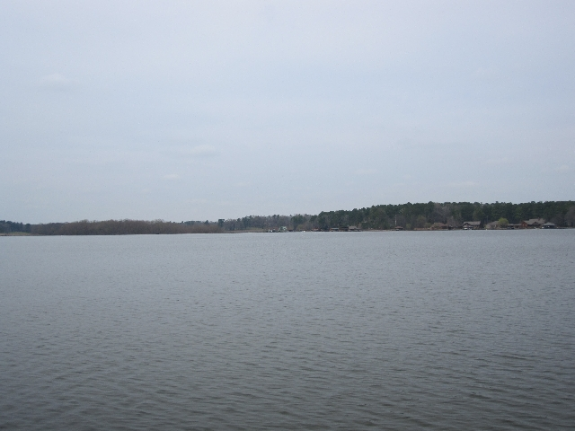 This image shows Lake Cypress Springs from the north branch on an overcast day.